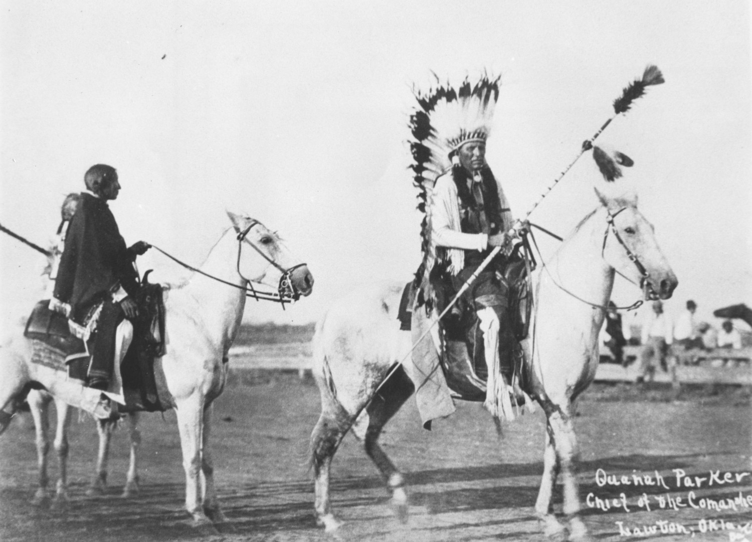 Quanah Parker on Horseback with lance and eagle feather headdress. Lawton, Oklahoma.